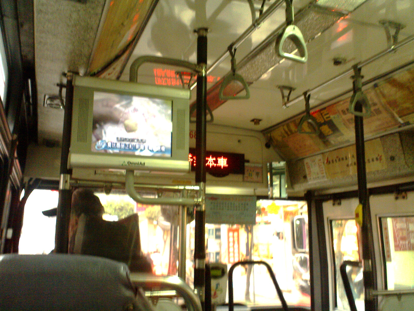 Isuzu LT134L bus AG-568 interior of Shin-shin Bus.中文（台灣）: 欣欣客運五十鈴LT134L大客車AG-568內部。車上的合和國際(合和集團)BeeTV液晶電視正在播映《台視晚間新聞》單則新聞影片。